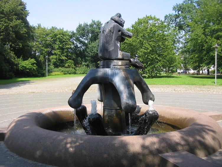 Fountain „Fette Henne“ in Berlin-Neukölln, created in 1984 by Rolf Szymanski.